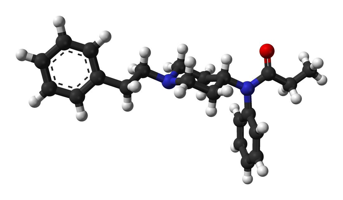 Ball-and-stick model of the fentanyl molecule in the crystal structure of fentanyl citrate-toluene solvate. X-ray diffraction data from O. M. Peeters, N. M. Blaton, C. J. De Ranter, A. M. Van Herk and K. Goubitz (1979). "Crystal and molecular structure ofN-[1-(2-phenylethyl)-4-piperidinylium]-N-phenylpropanamide (fentanyl) citrate-toluene solvate". Journal of Chemical Crystallography: 153-161.